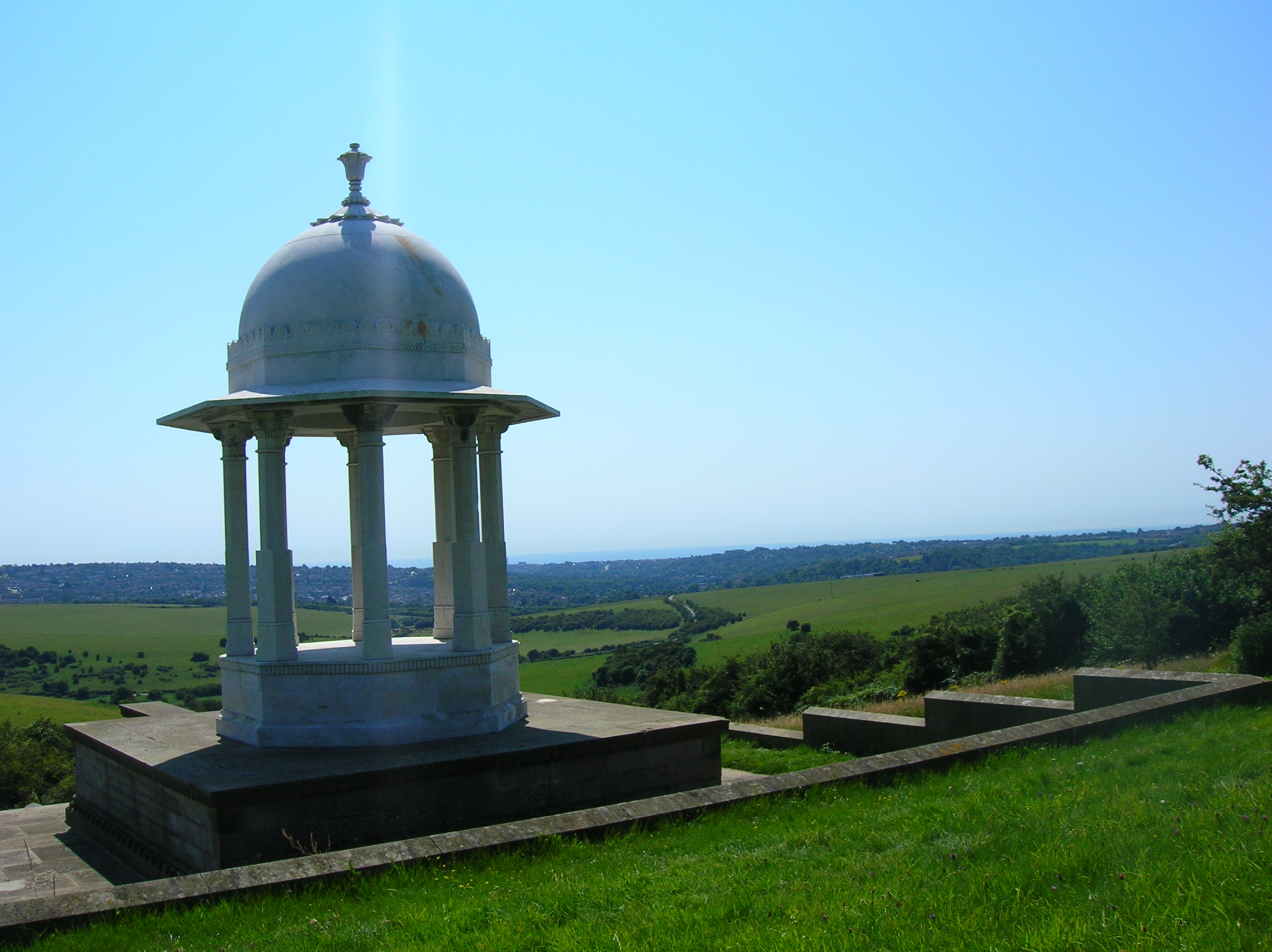 Hindu and Seik Indian Soldier's Memorial, Sussex looking towards Brighton